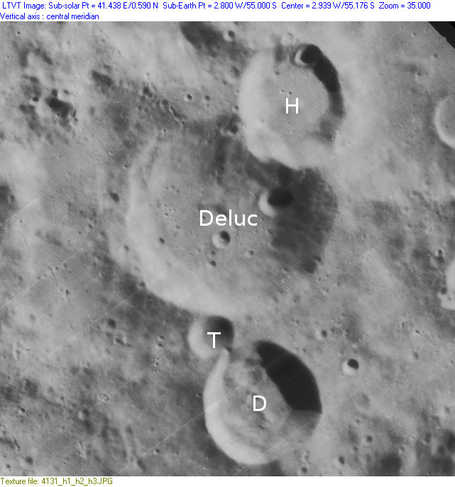 Crater Deluc. Detail from Lunar Orbiter IV-131H. High resolution scans from the USGS Lunar Orbiter Digitization Project remapped to a north-up aerial view by LTVT.